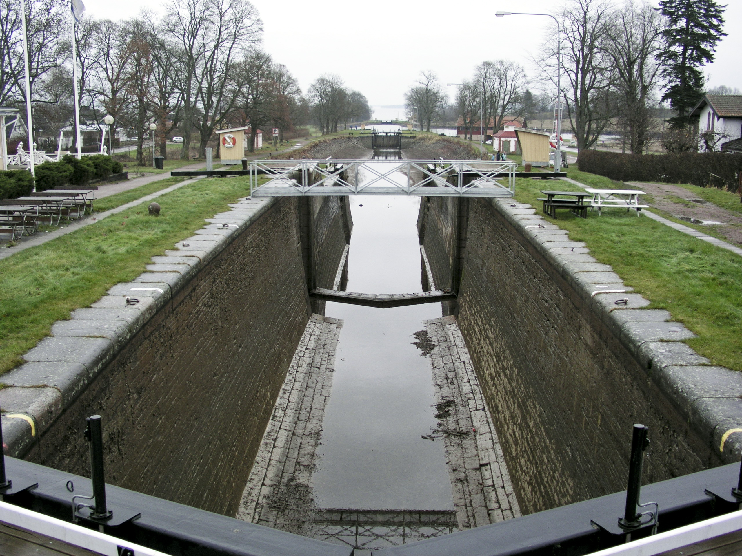 Göta canal, at Bergs slussar (lock of Bergs), Linköping. When empty.